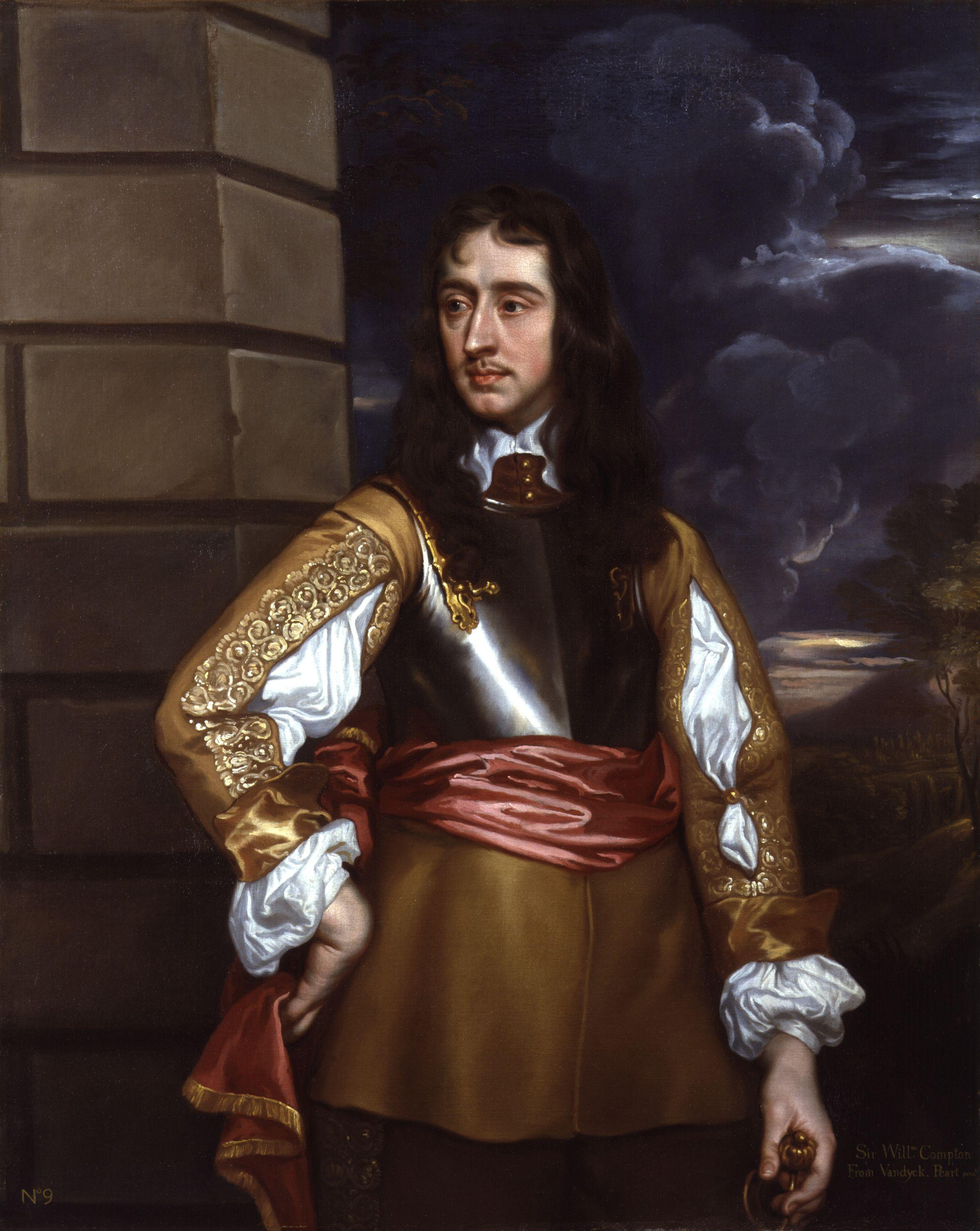 Sir William Compton